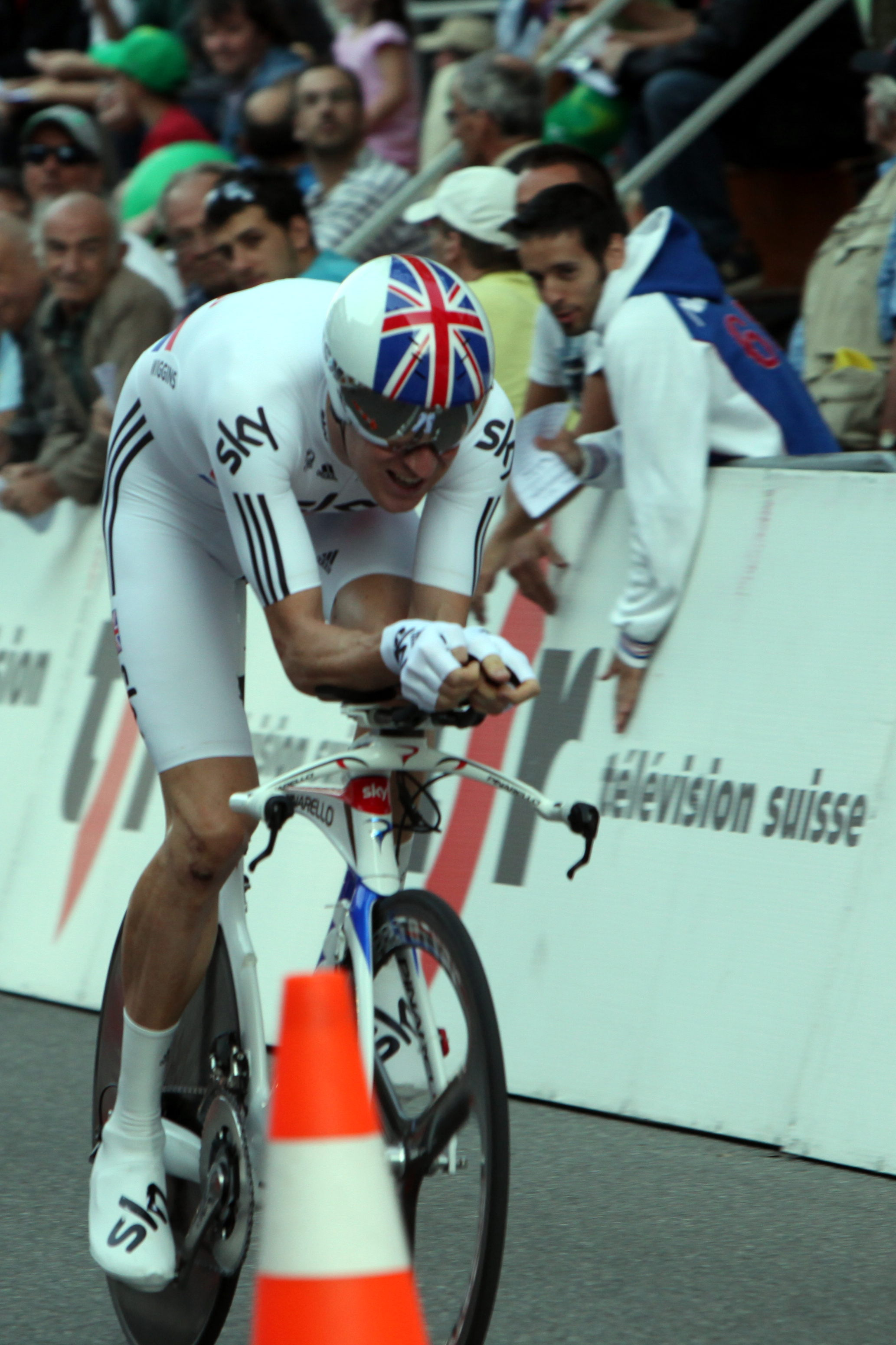 Bradley Wiggins at the prologue of the Tour de Romandie 2011